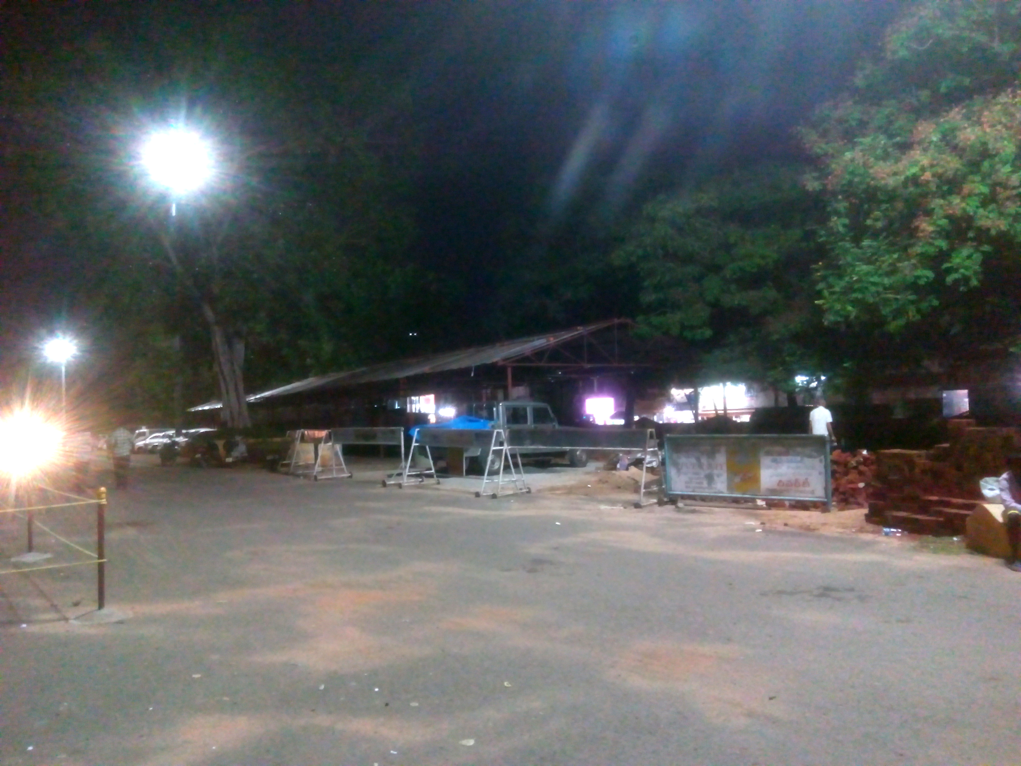 Rajamandry Godavari Pushkaralu 2015 (Godavari Kumbhamela)